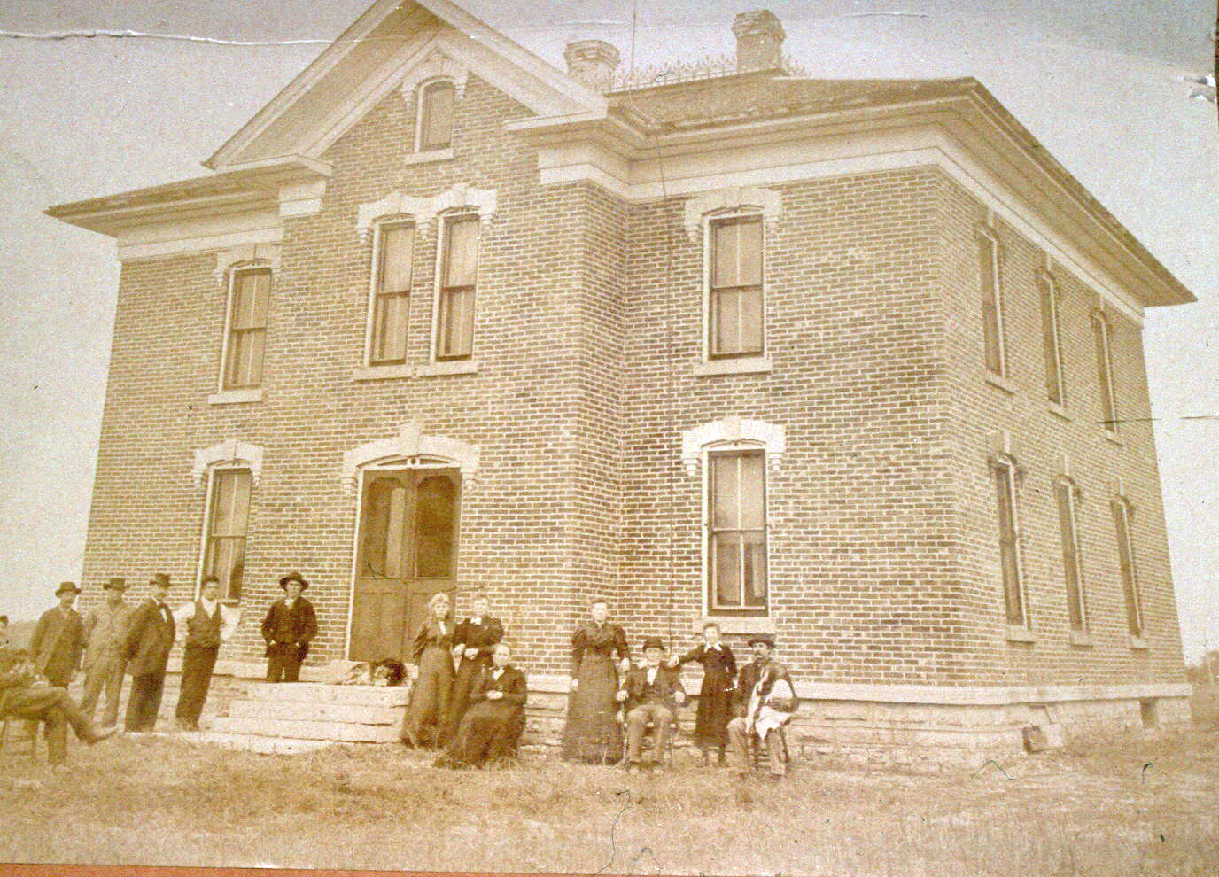 Circa 1900 photo of the Ole Carlson House, Dodge County, Minnesota, USA.